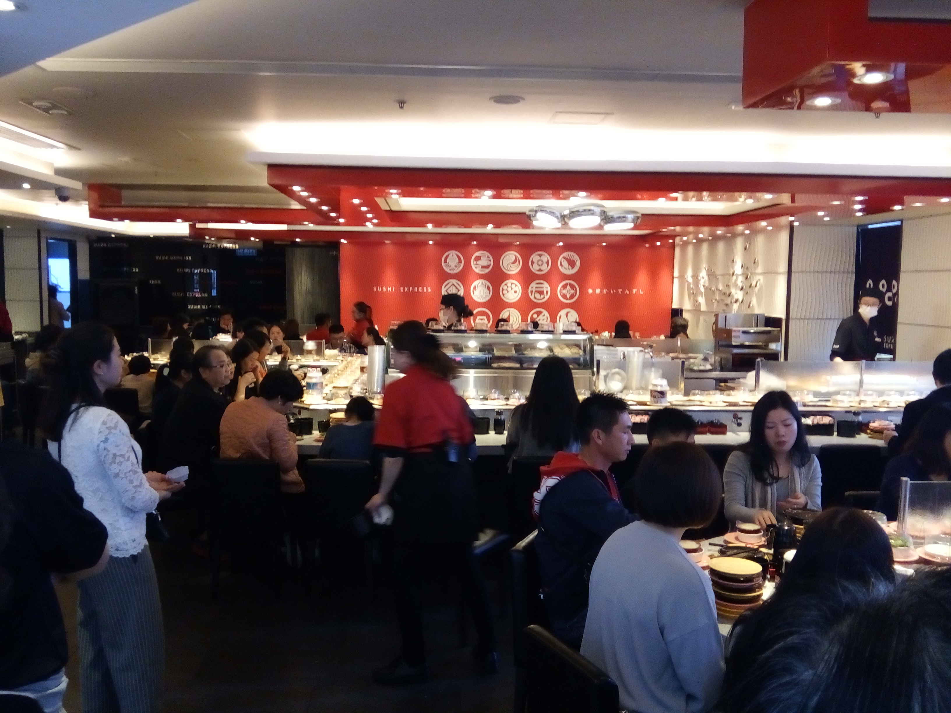 Restaurants in 上水匯 Sheung Shui Spot in Jan 2017